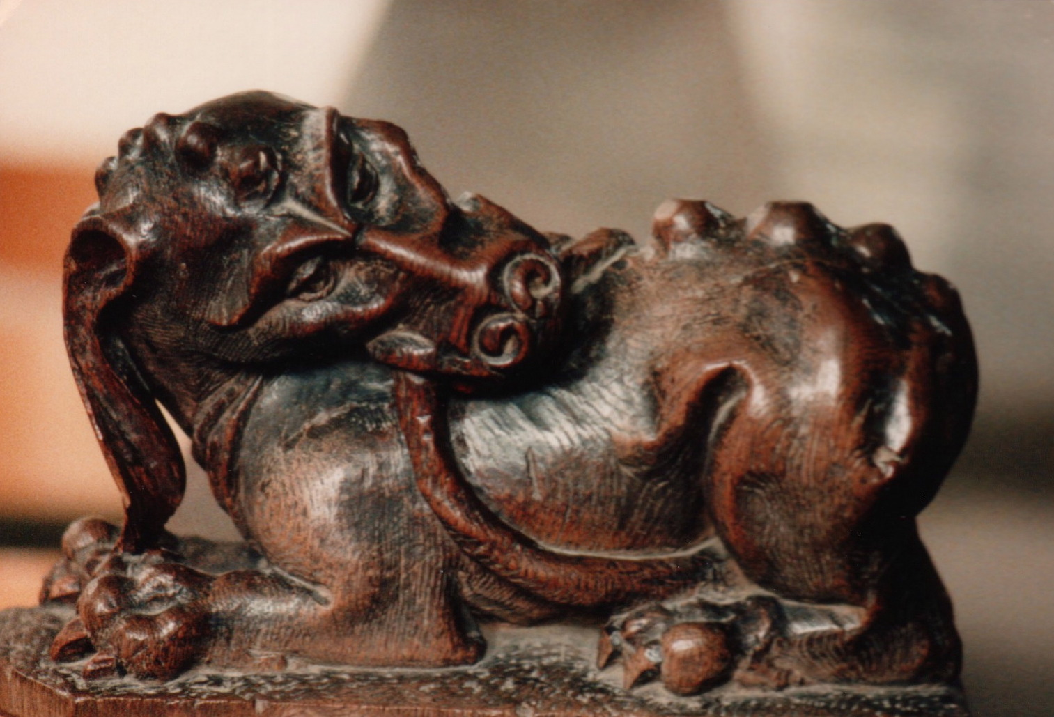 A chimera gnaws its tail on one of the 15th-c. choir pews in St. Georg Church, Nördlingen, Germany